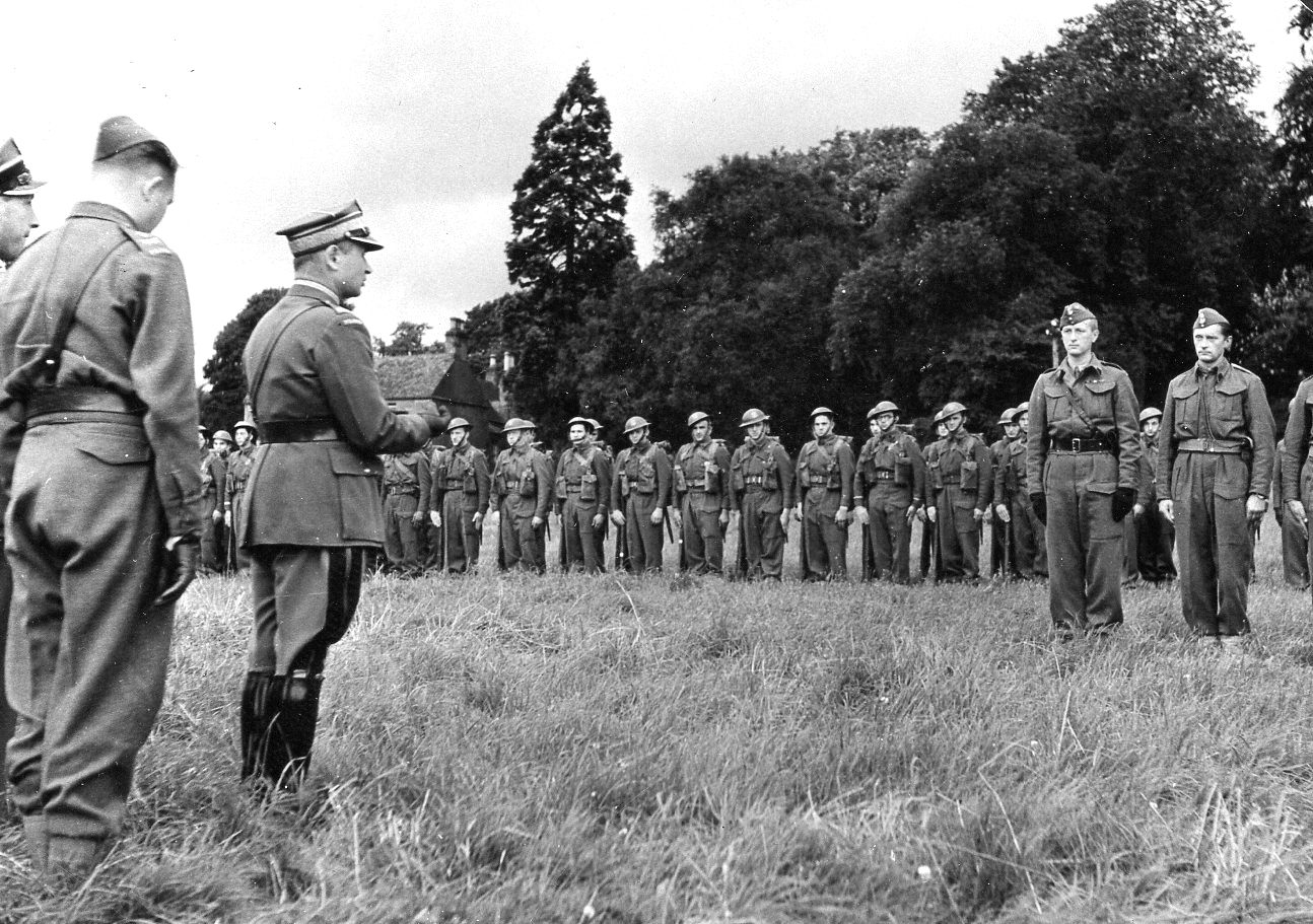 General B. Duch with Polish Volunteers in Canada